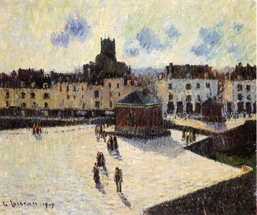 Dieppe